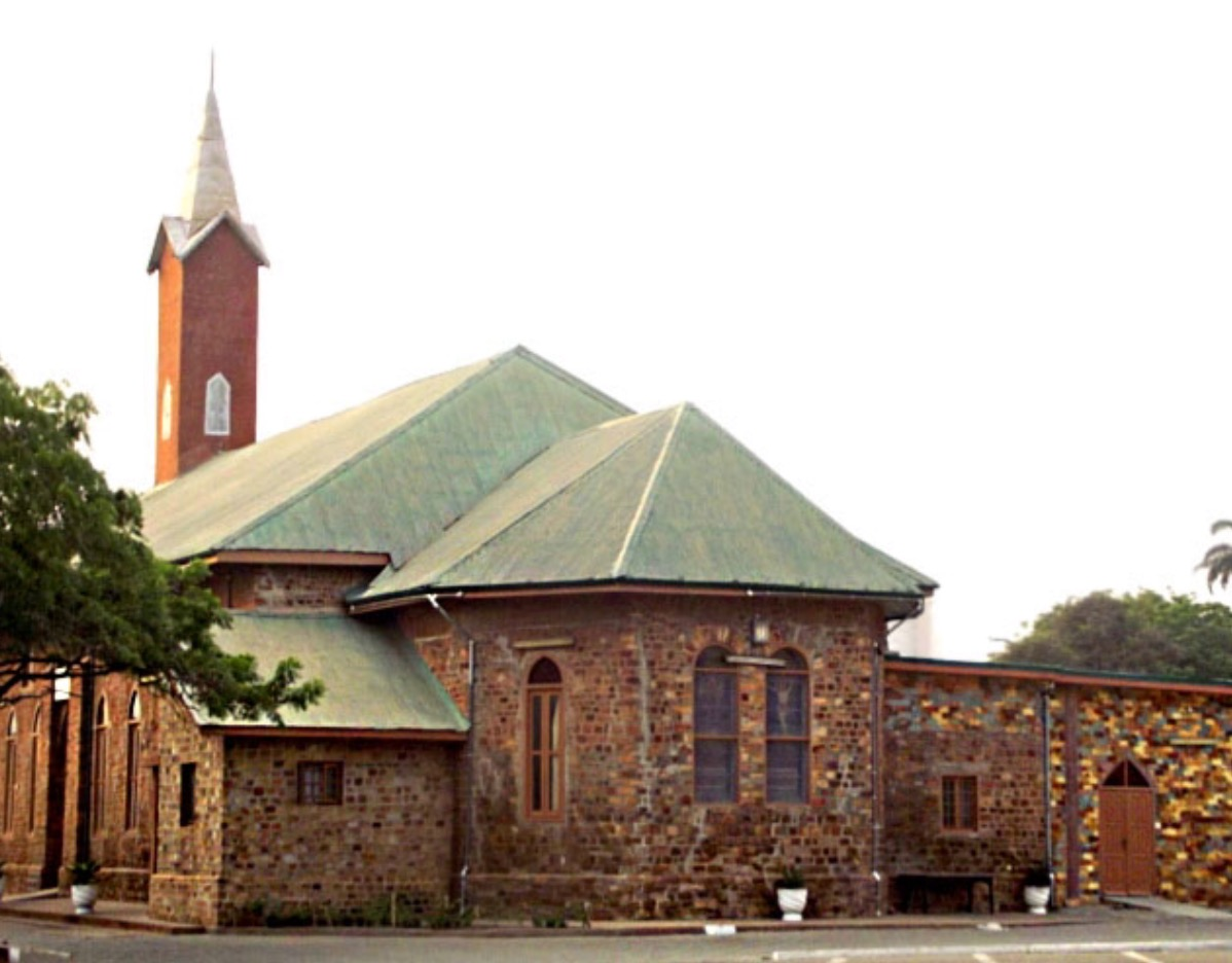 Personal photo of a Ghanaian historic church, Osu Ebenezer Presbyterian Church